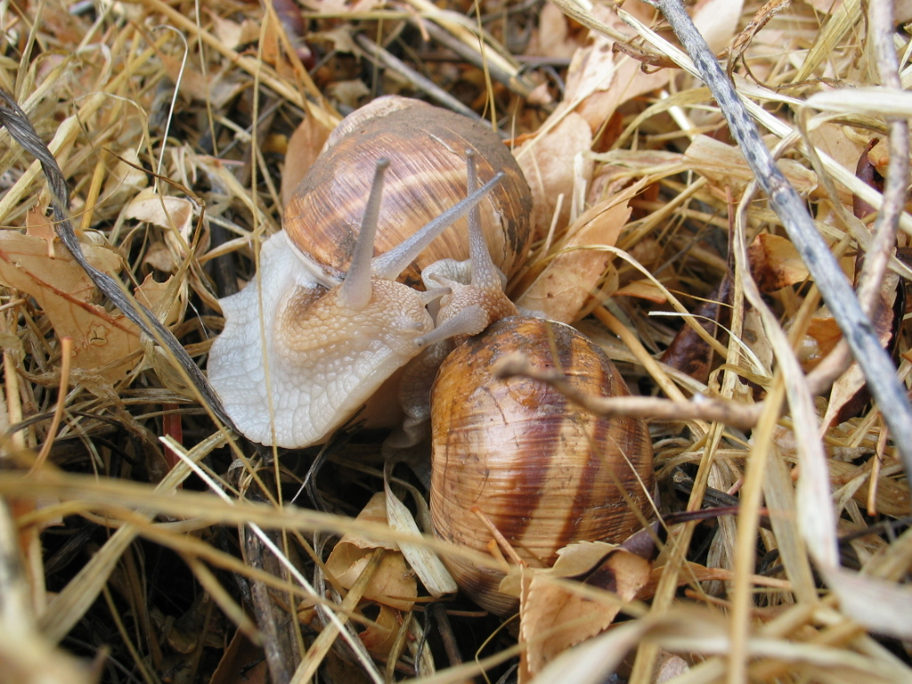 The Hermon Snail - Helix pachya, formerly assigned as Helix texta